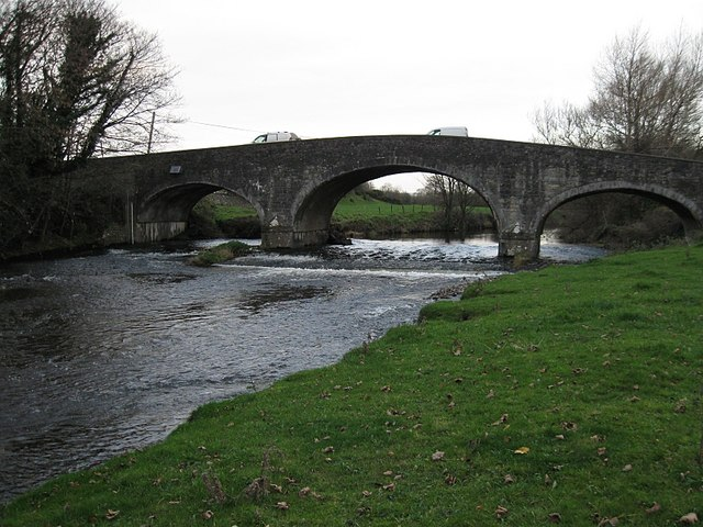 Dinin Bridge Bridge carrying the N77 over the River Dinin about 8Km N of Kilkenny.